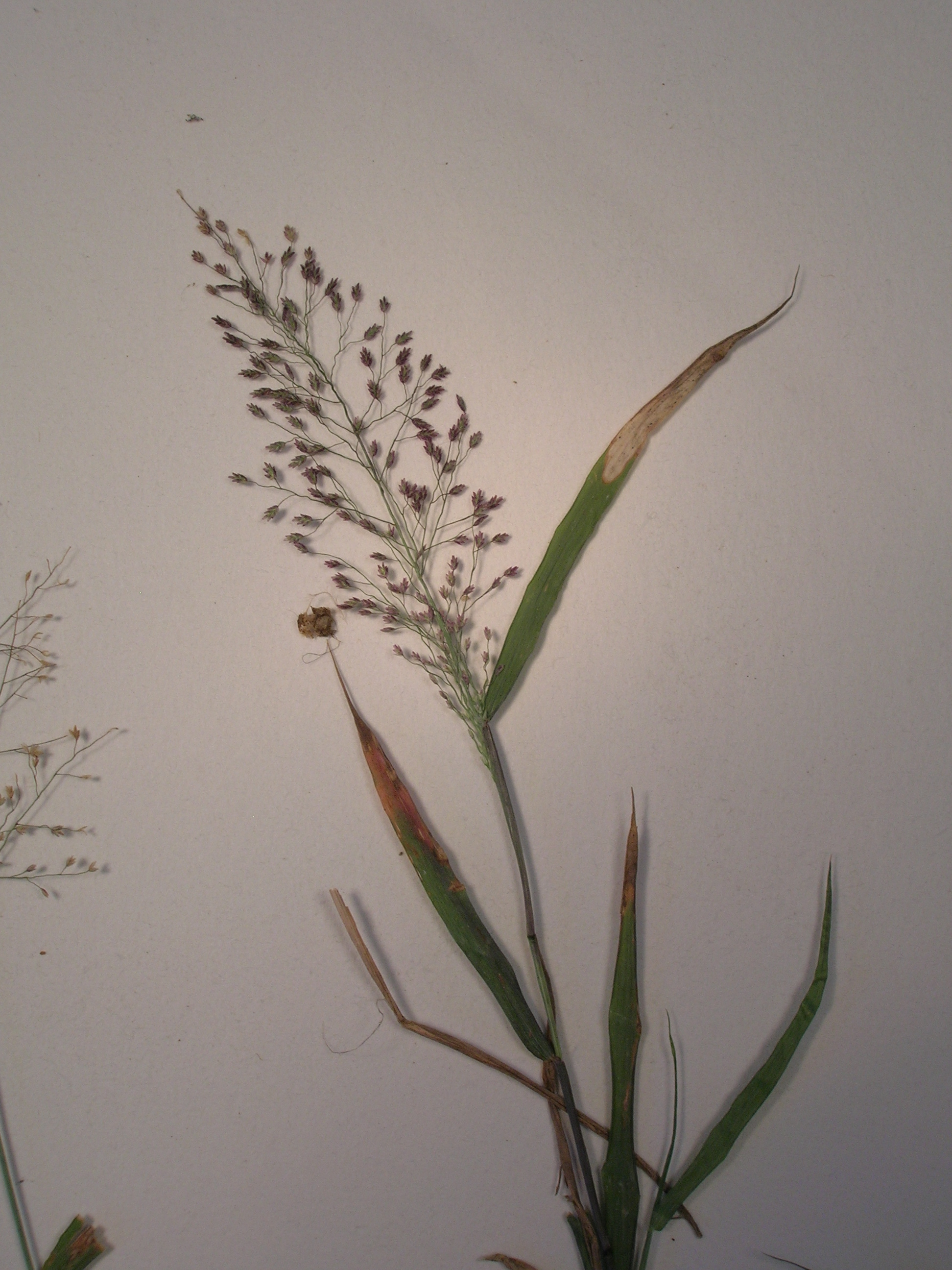 Eragrostis amabilis (voucher 080601 18). Location: Midway Atoll, Halsey Dr housing Sand Island